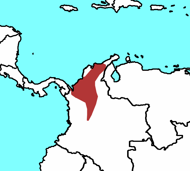 The Blue-billed Curassow's Distribution.